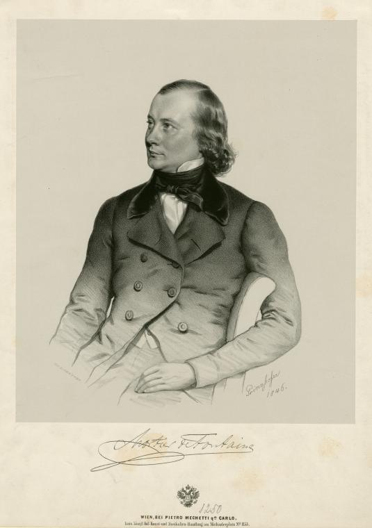 Henry-Louis-Stanislas Mortier de Fontaine (1816-1883), Polish pianist